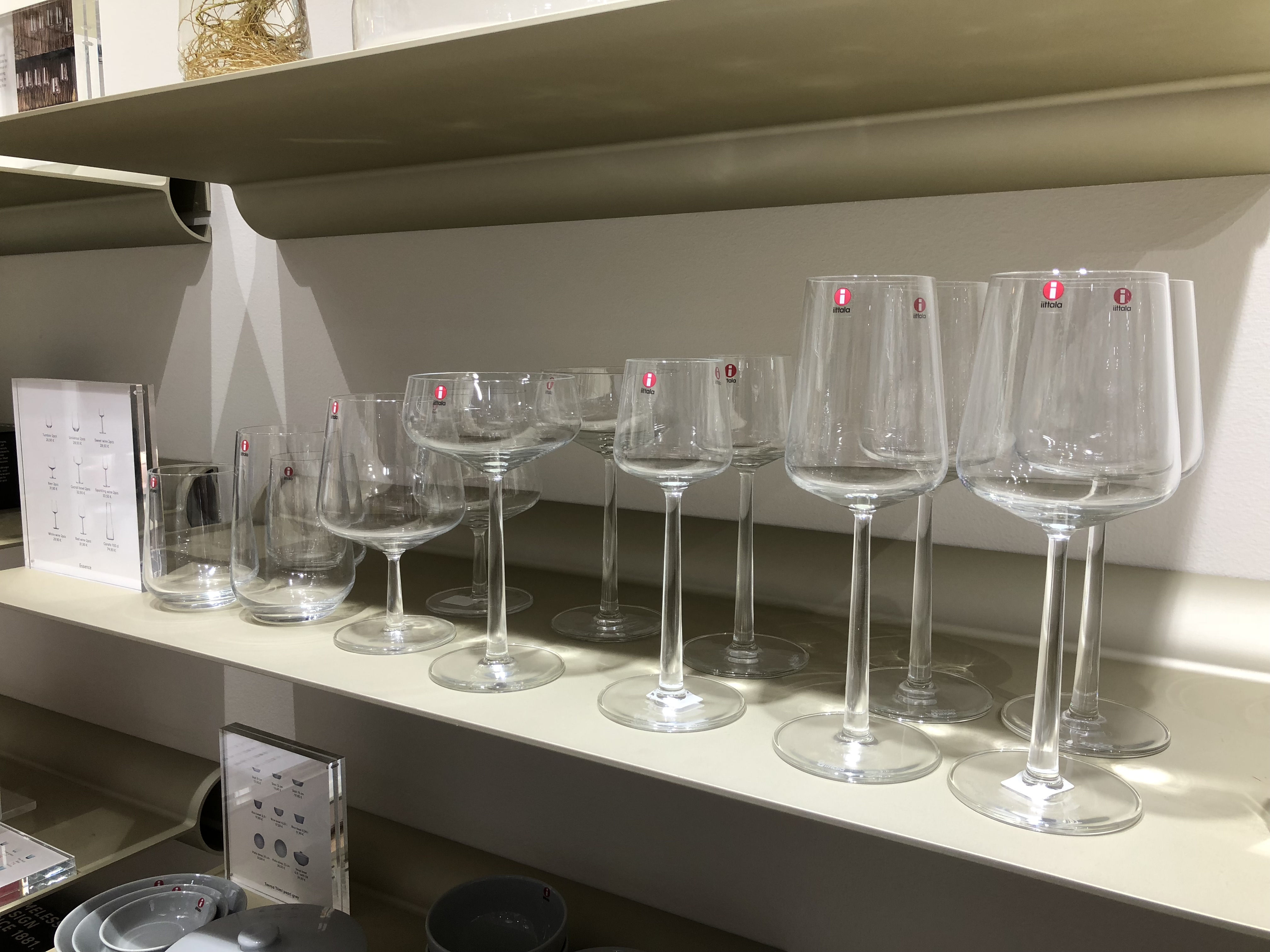 Iittala Essence series at Iittala Store at Pohjoisesplanadi Helsinki, Finland